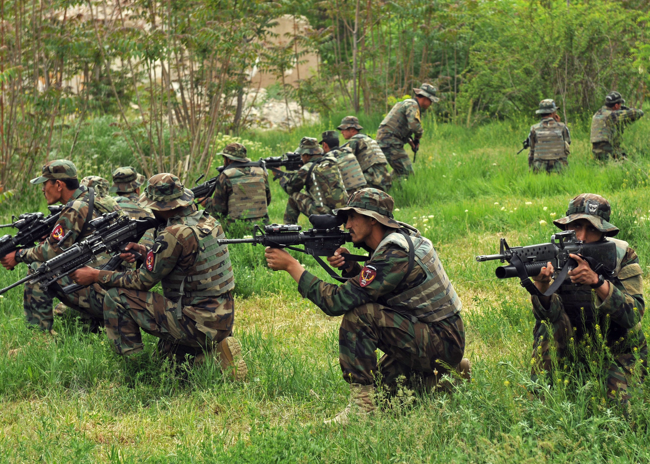 Afghan National Army commandos with the 2nd Company, 6th Commando Kandak, perform a clearing exercise in Kabul province, Afghanistan, May 9. The training enables commandos to clear an area and make it safer for locals as part of Village Stability Operations. The commandos perform specialized security training and offer strategic guidance to the Government of the Islamic Republic of Afghanistan for counterinsurgency and stability operations. (Photo ID: 583986)